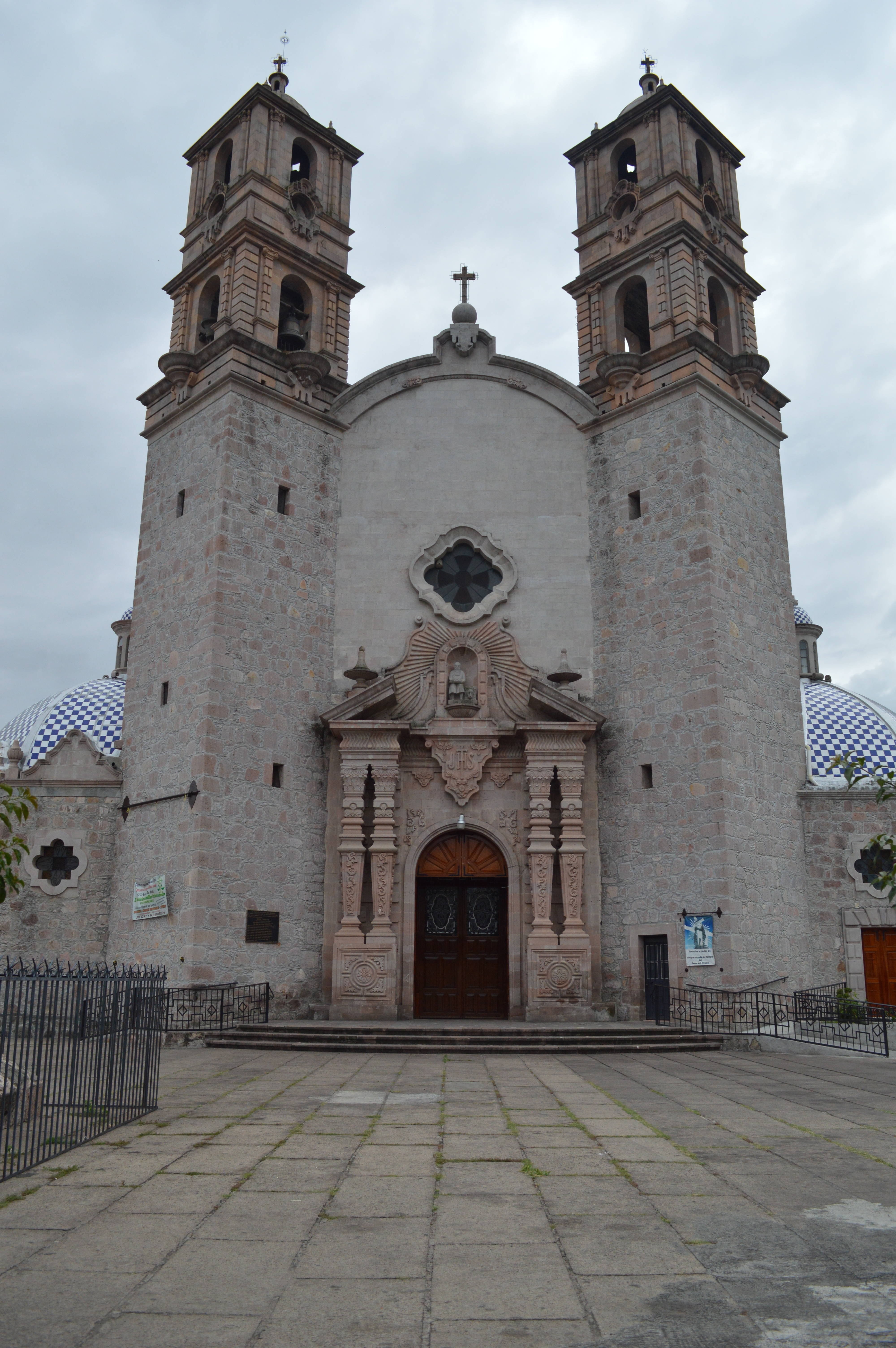 View of the Señor del Amparo Church in Huandacareo, Michoacan